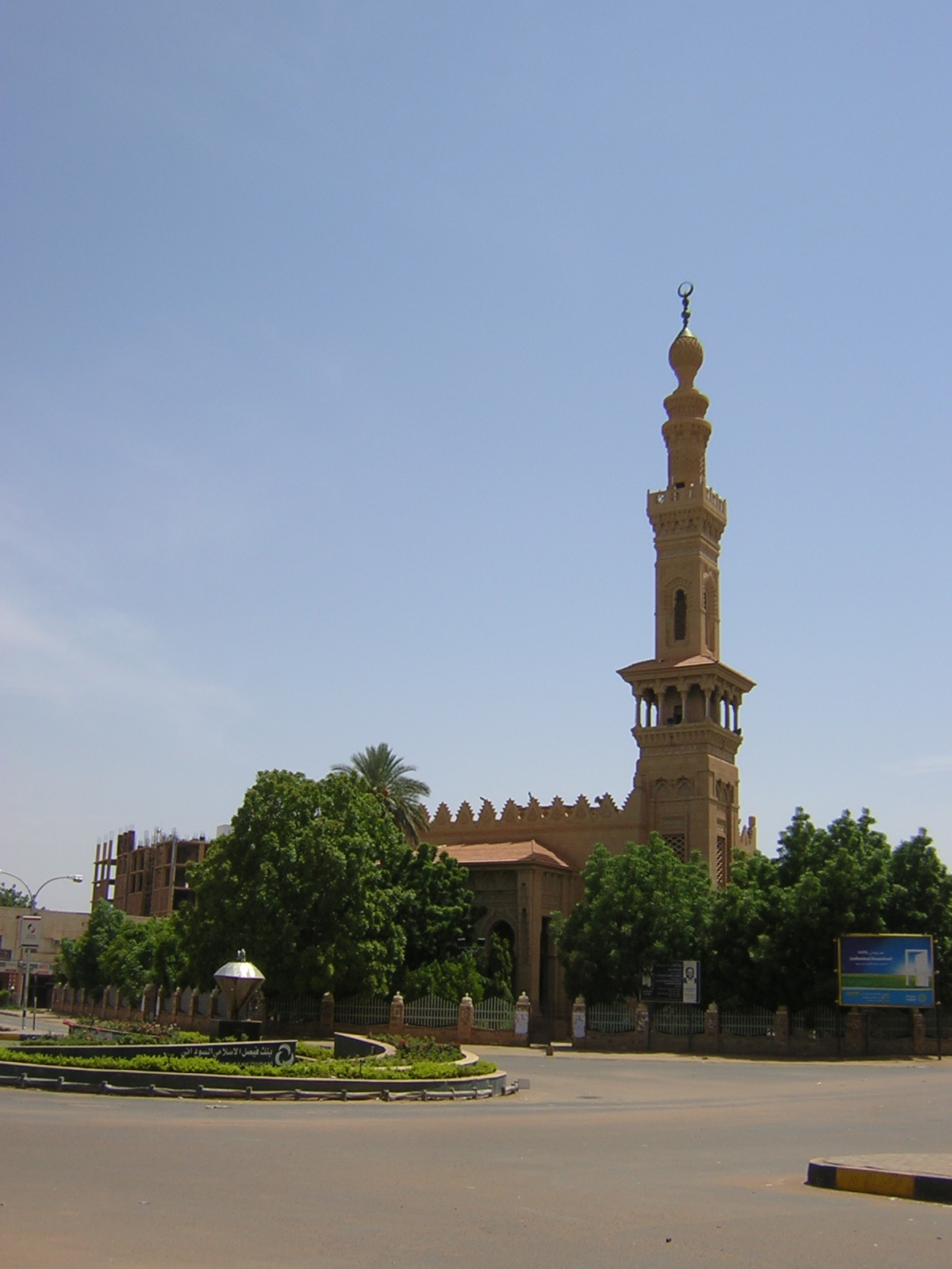 Al-Farouq mosque, Khartoum, Sudan.